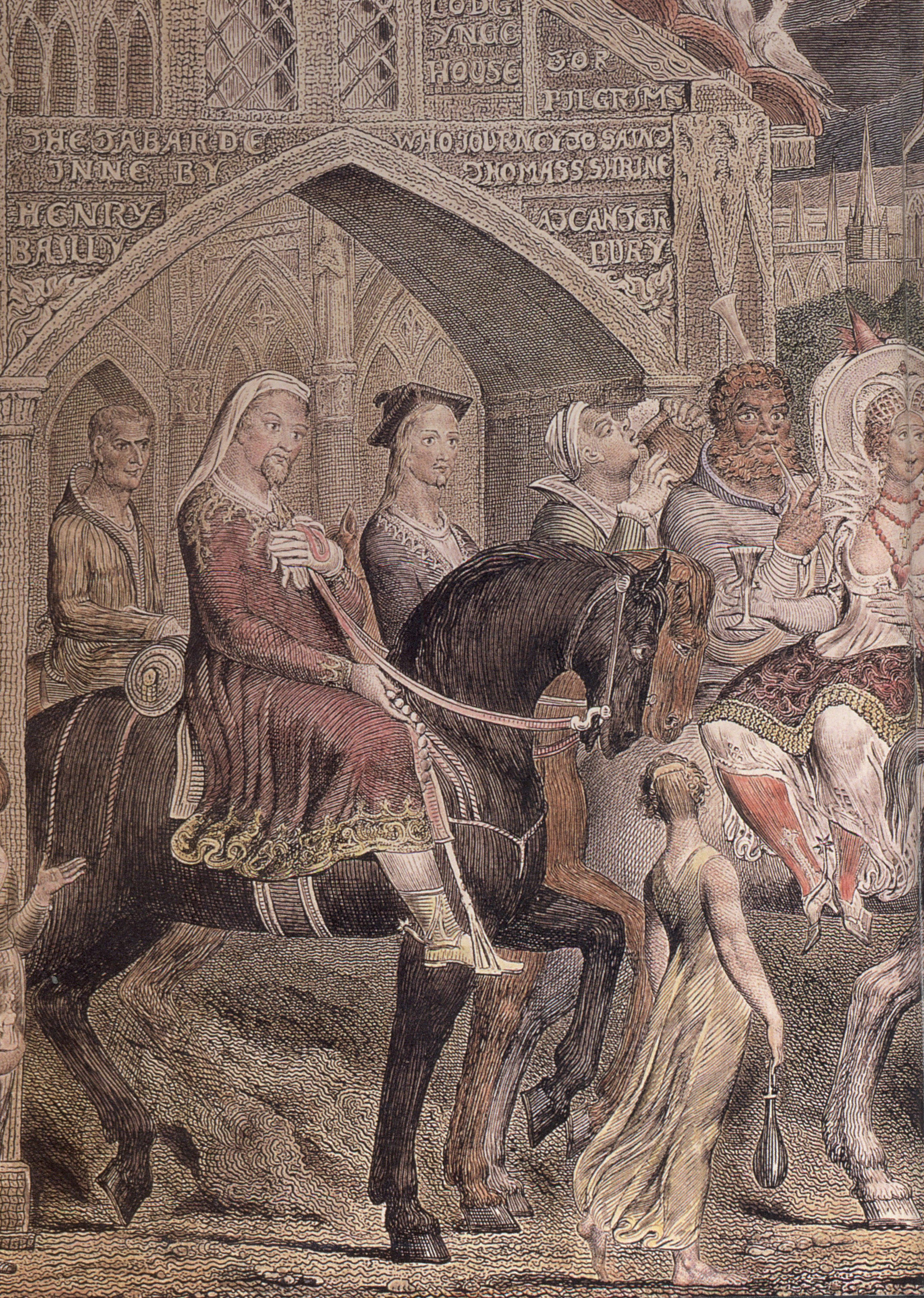 Blake-Cant-pilgrims-detail-b Chaucer Coloured engraving, 2nd state (1810) Chaucer's Canterbury Pilgrims Copper engraving, with additions in watercolor by the artist Signature and imprint, Painted in Fresco by William Blake & by him Engraved & Published October 8. 1810, at No 28. Corner of Broad Street Golden Square; inscribed below: Chaucers Canterbury Pilgrims, and with the names of the pilgrims, Reeve, Chaucer, Clerk of Oxenford, Cook, Miller, Wife of Bath, Merchant, Parson, Man of Law, Plowman, Physician, Franklin, 2 Citizens, Shipman, The Host, Sompnour, Manciple, Pardoner, Monk, Friar, a Citizen, Lady Abbess, Nun, 3 Priests, Squires, Yeoman, Knight, Squire. The engraving is known in five states. Blake's use of line engraving, emulating the styles of early printmakers Albrecht Dürer and Lucas van Leyden, evokes the character of Chaucer's poetry. Blake painted the pilgrims after a quarrel with R. H. Cromek and Thomas Stothard regarding whether the commission had originally been Blake's. The painting was exhibited at his brother's Soho shop in 1809, and this engraving was created from it.